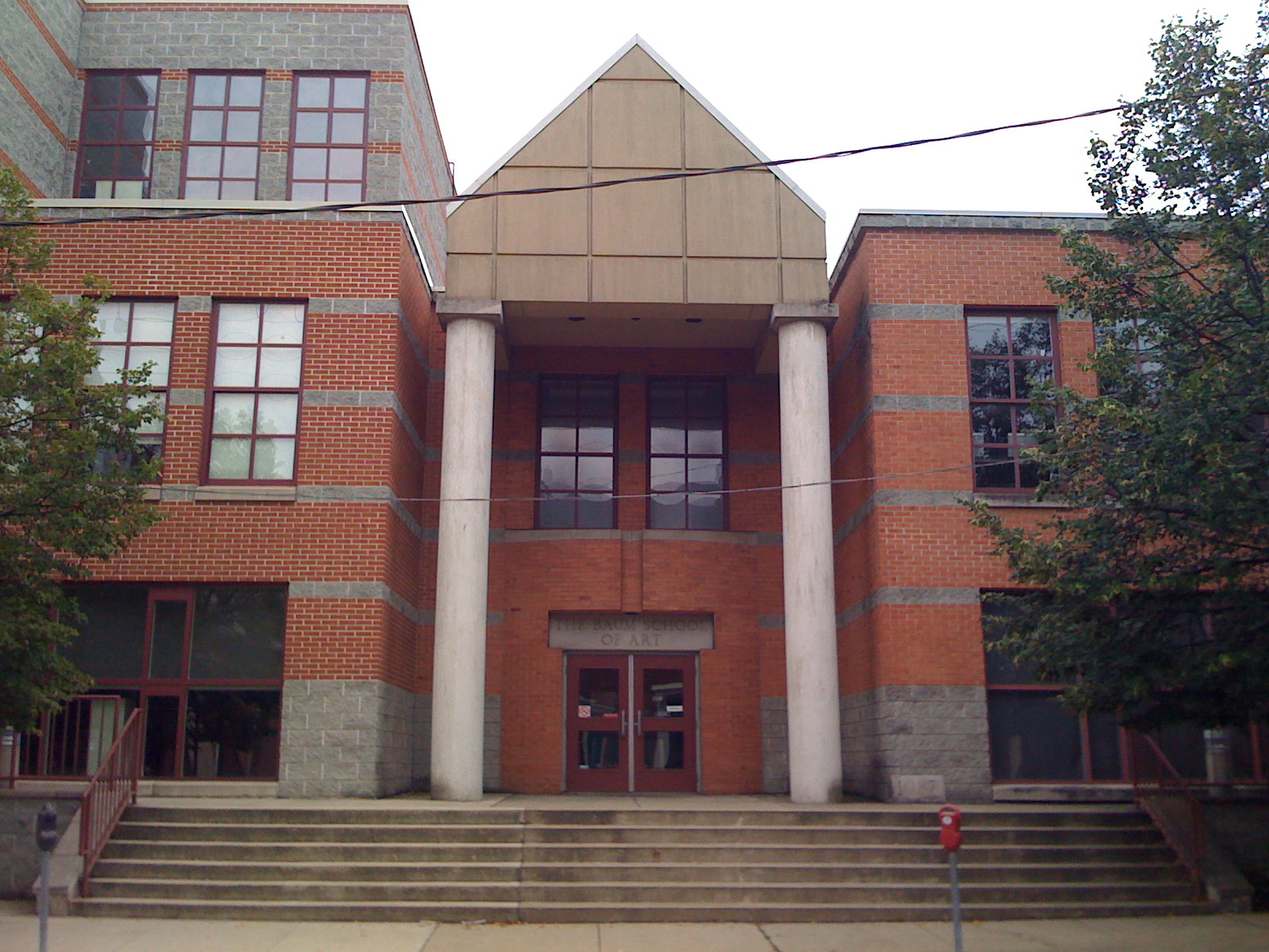 Front entrance of the Baum School of Art